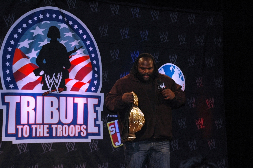 Images from WWE Tribute to the Troops Event. The event was taped December 11, 2011 in Fayetteville, North Carolina at the Crown Coliseum, the taping was performed in front of U.S. military service members from the nearby Fort Bragg military base and their families.